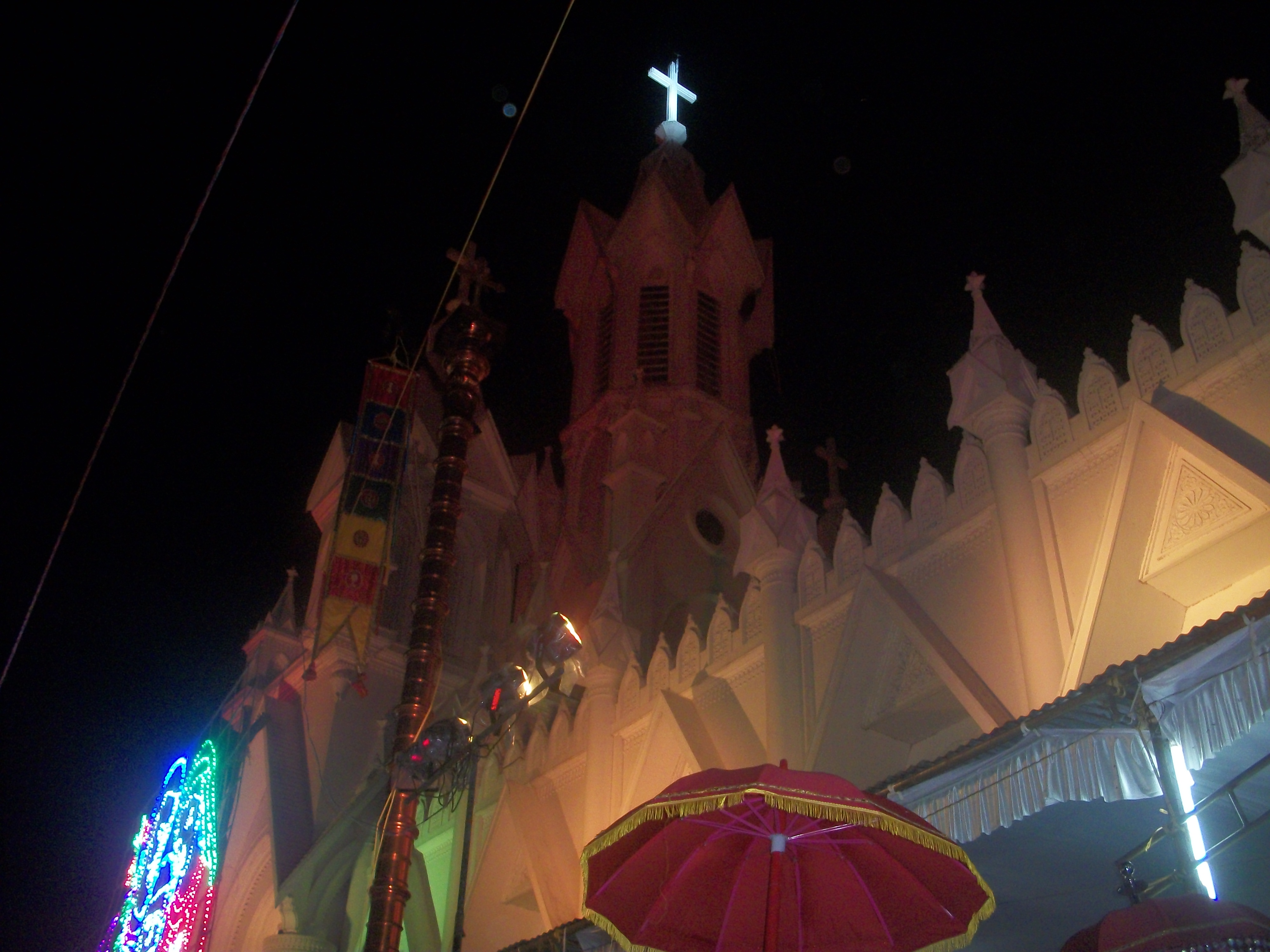 St. George Orthodox Church, Chandanapally in Lights